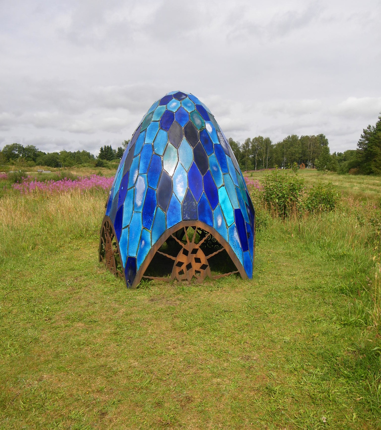 Gunhild Rudjord, Esben Lyngsee Madsen, Pantagonia, 1990